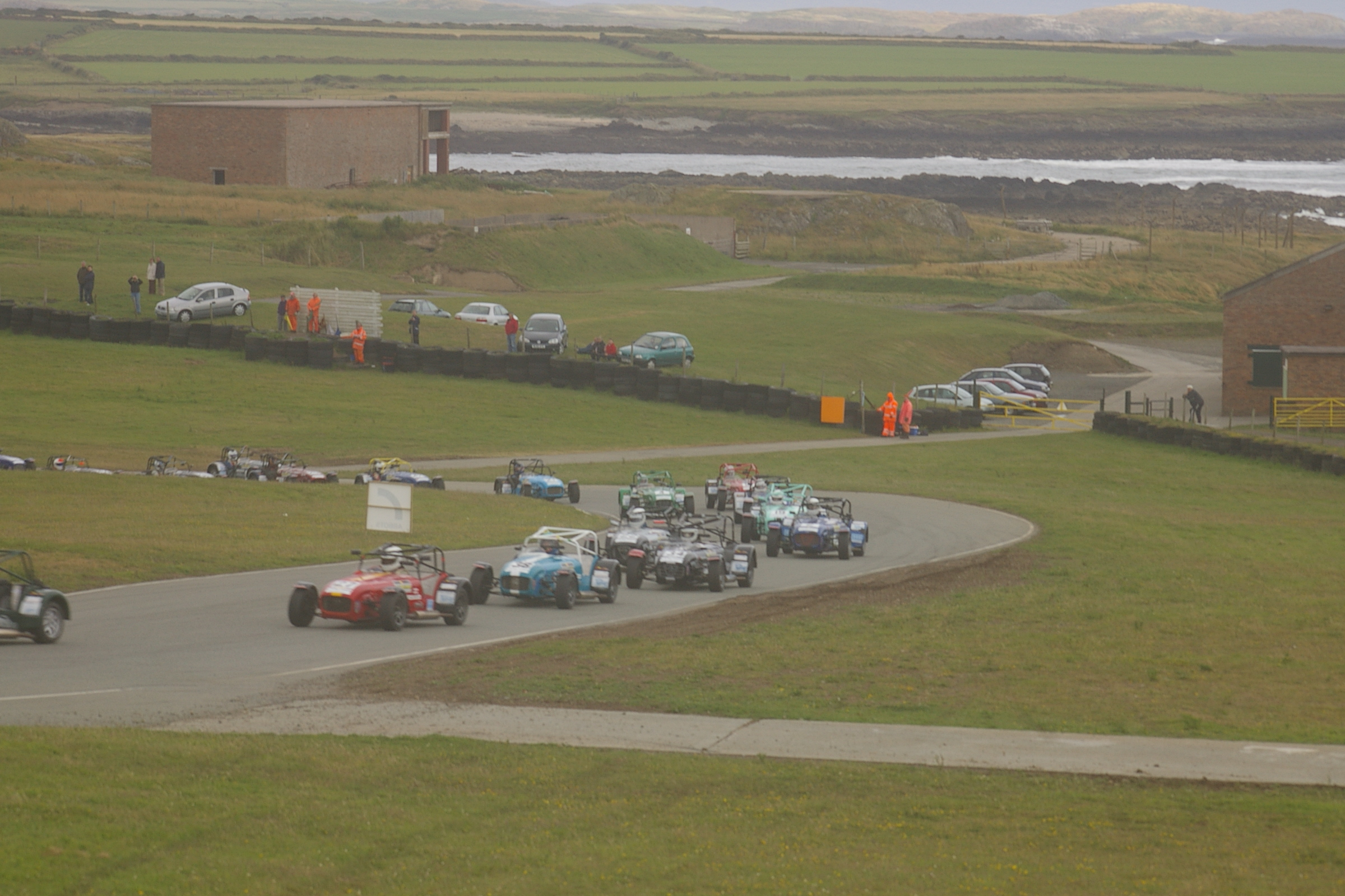 Caterham Super 7s racing at Anglesey Circuit